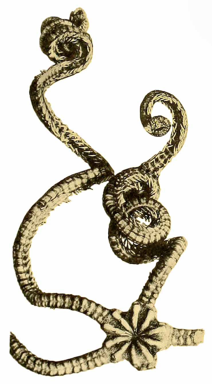 Catalogue of recent ophiurans : based on the collection of the Museum of Comparative Zoölogy / by Hubert Lyman Clark ; with twenty plates. Plate 1. Ophiocreas papillatum H. L. "Clark. Sea of Idzu, Japan. [= syn. of Ophiocreas japonicus] Fig. 8. Aboral view. X 1 + .